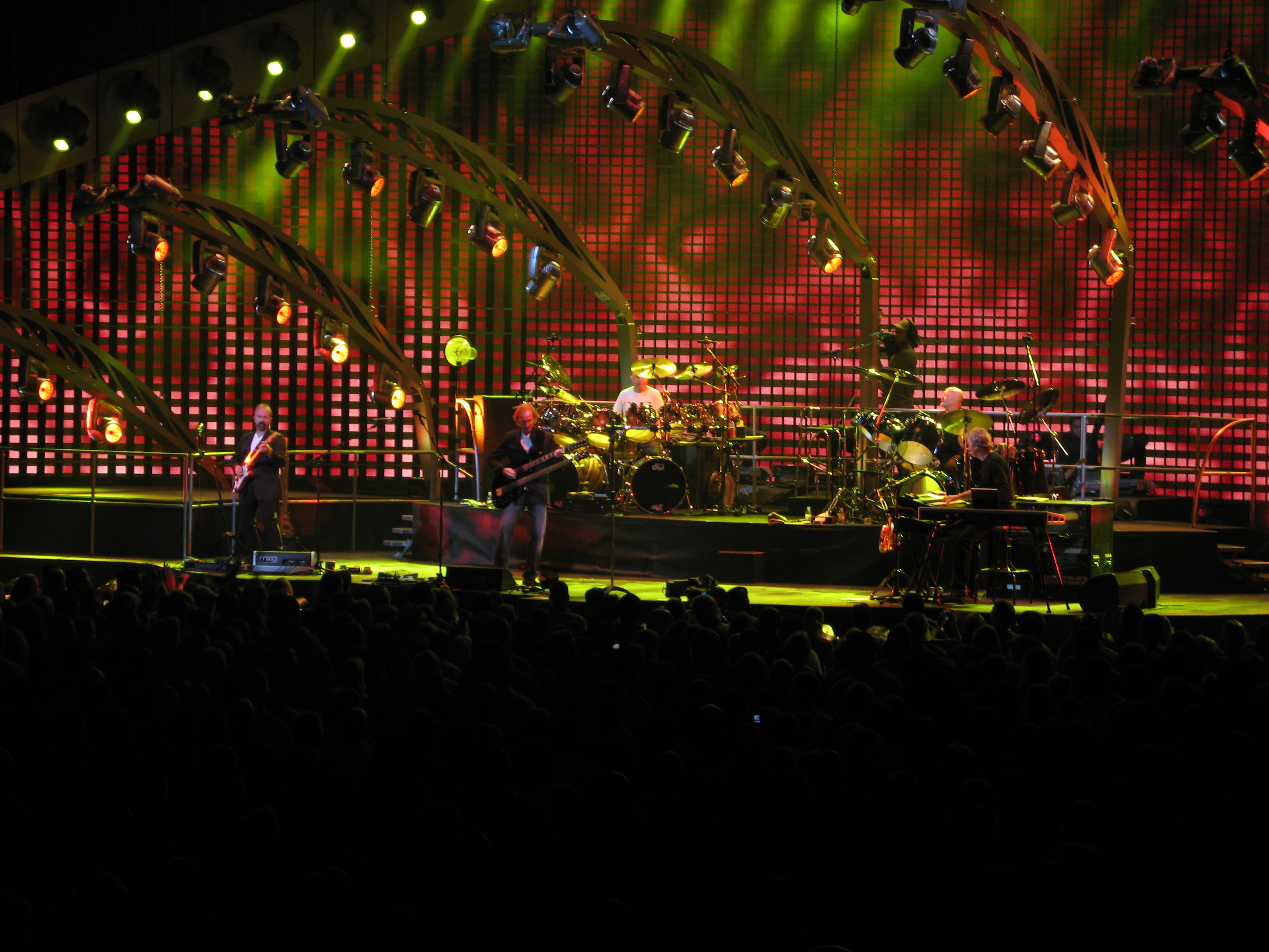 Genesis concert at the Wachovia Center, Philadelphia, Pennsylvania, USA. Performing "Los Endos".